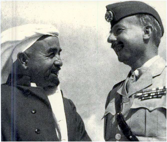 King Abdullah I of Jordan and John Bagot Glubb (Glubb Pasha) taken in the 1940s, probably before 1948. The king died in July 1951.